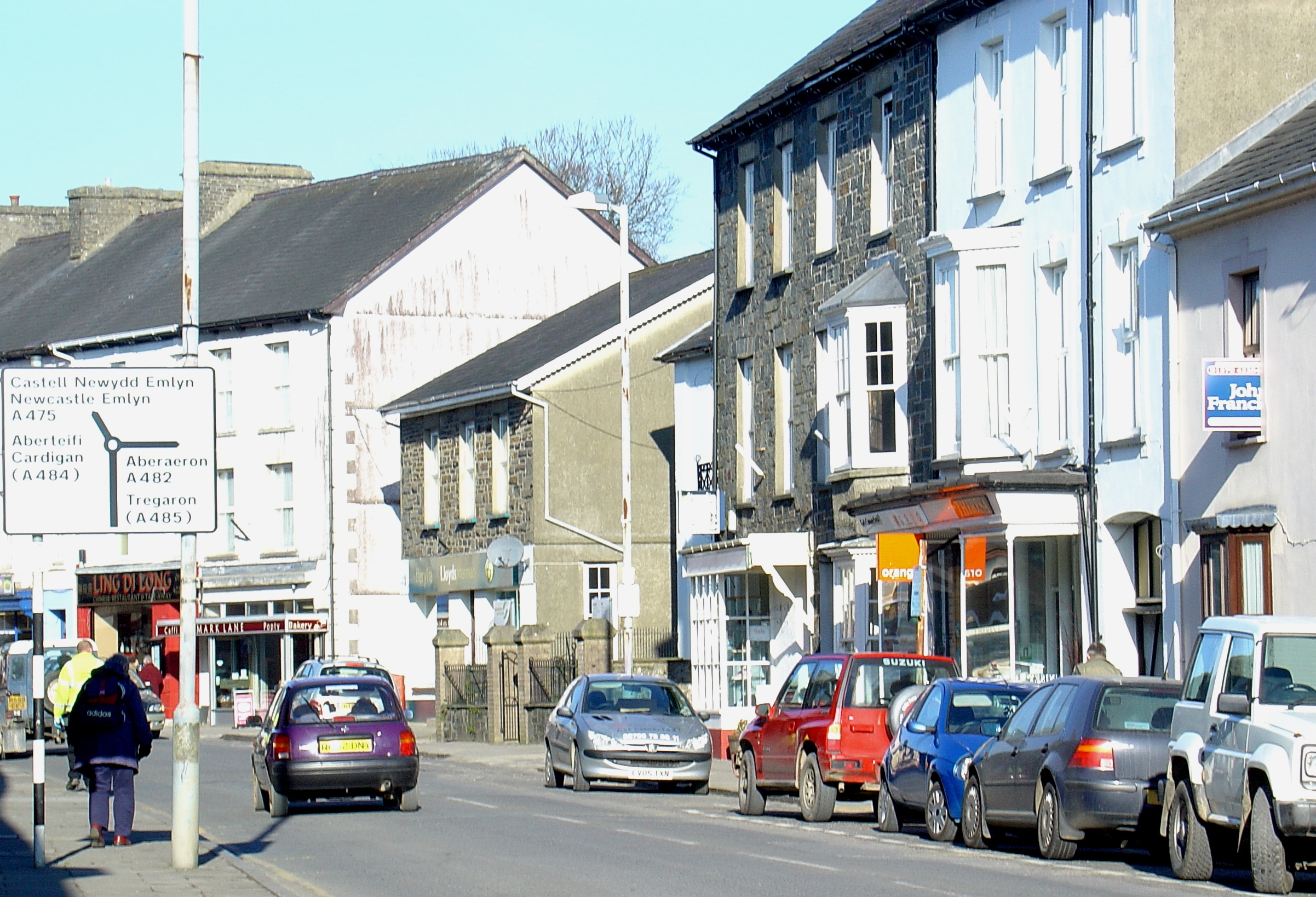 View of Lampeter in Ceredigion, South West Wales.